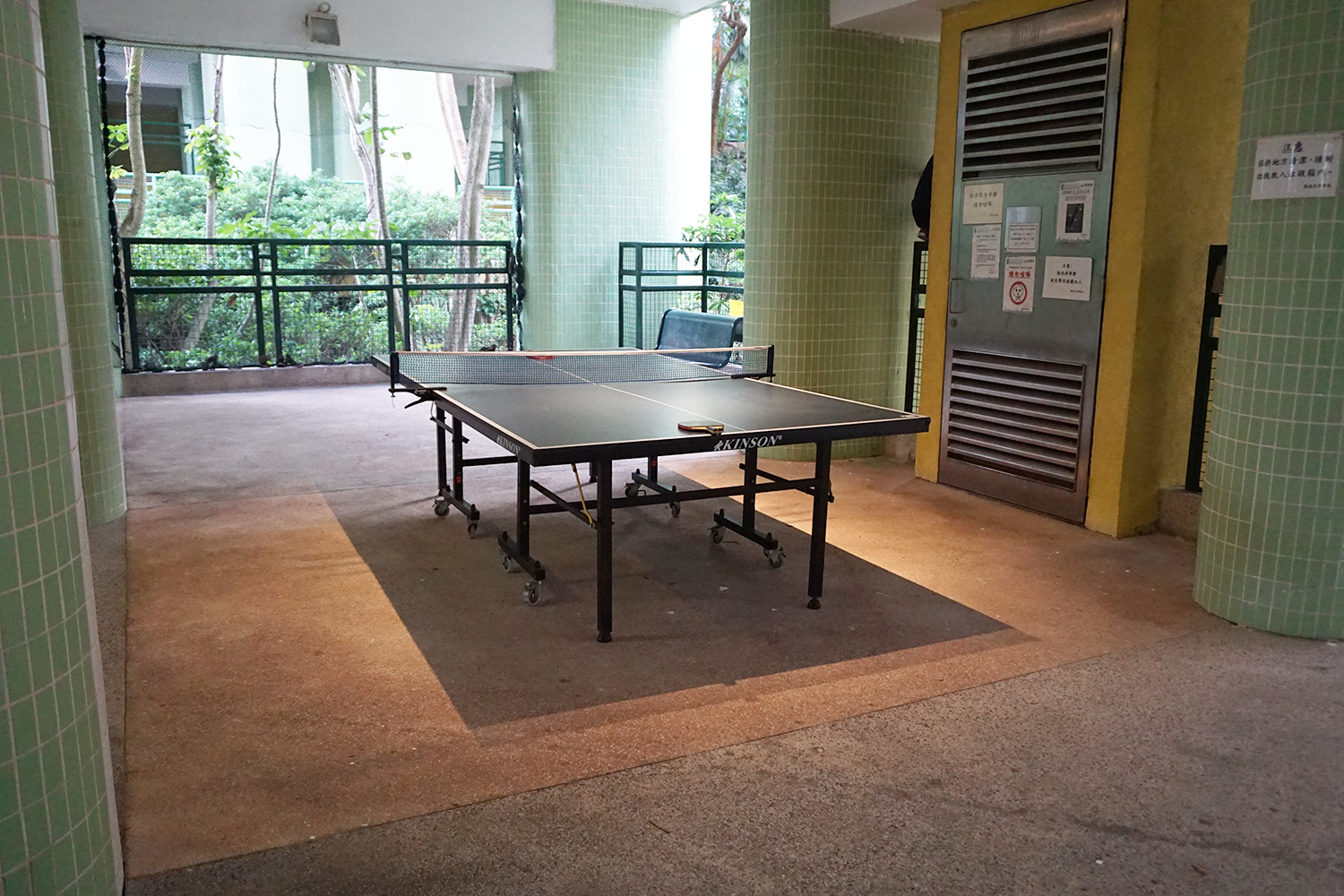 Lung Tak Court in Stanley, Hong Kong.